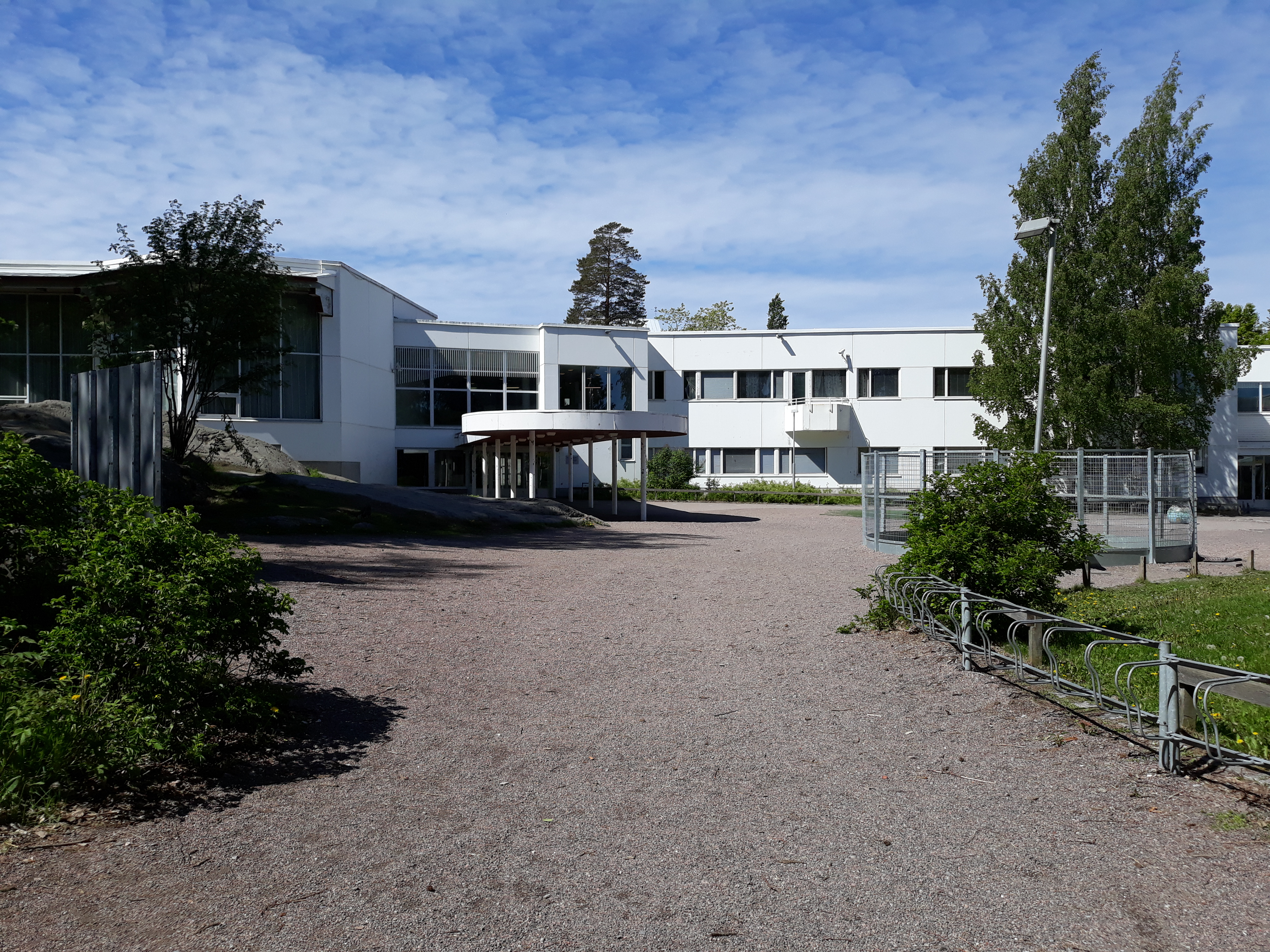 Merilahti Comprehensive School in June 2019, Jaluspolku unit